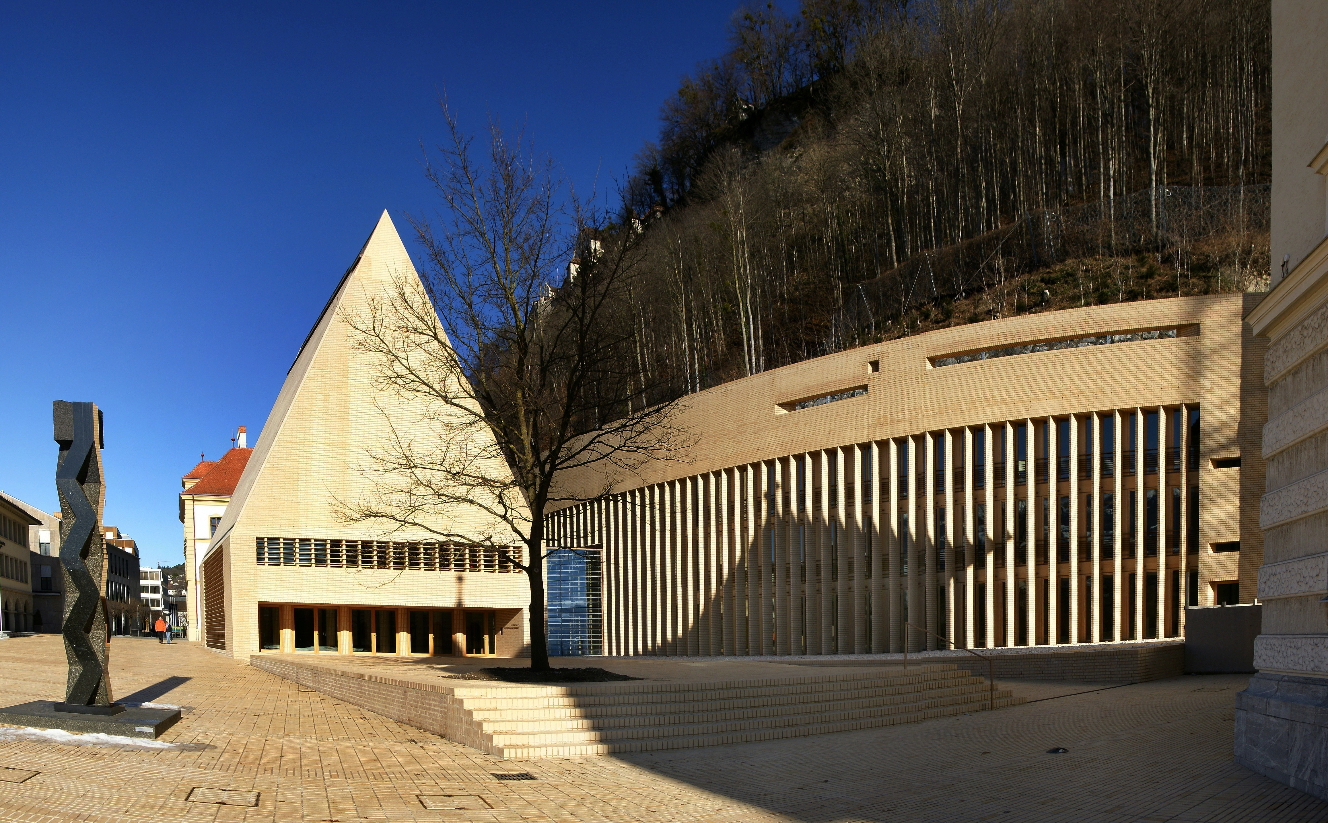 Regierungsgebäude (Government Building), Vaduz, Liechtenstein - Seat of Government and Parliament.